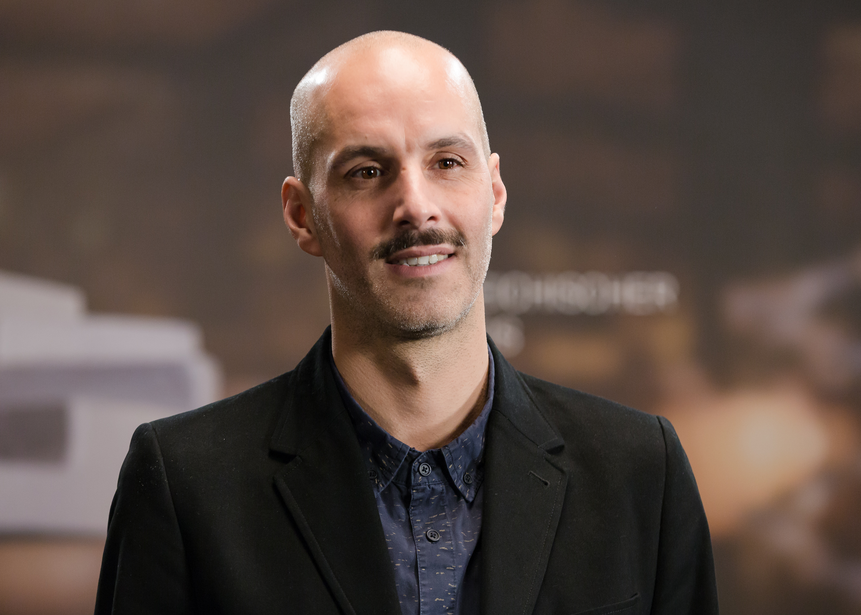 Patric Chiha, screenwriter and director of Brothers of the Night (orig.: Brüder der Nacht), at the Austrian Film Awards 2017 (Rathaus, Vienna,Austria).